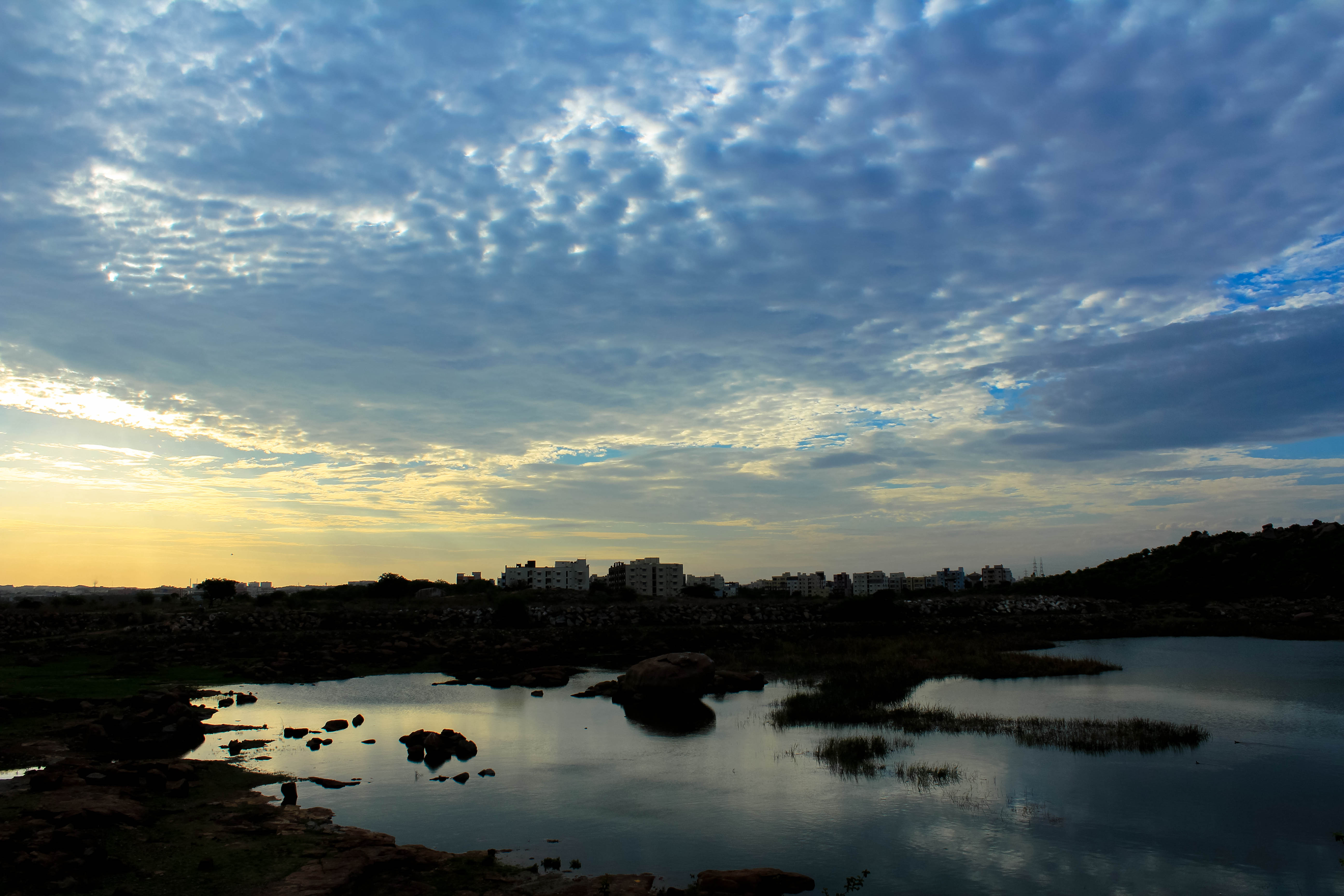 Ameenpur Lake in Hyderabad India